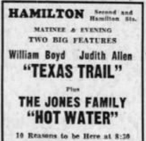 Hamilton Theater advertisement for the American films Texas Trail (1937) and Hot Water (1937) - 19 Mar. 1938 Morning Call, Allentown PA